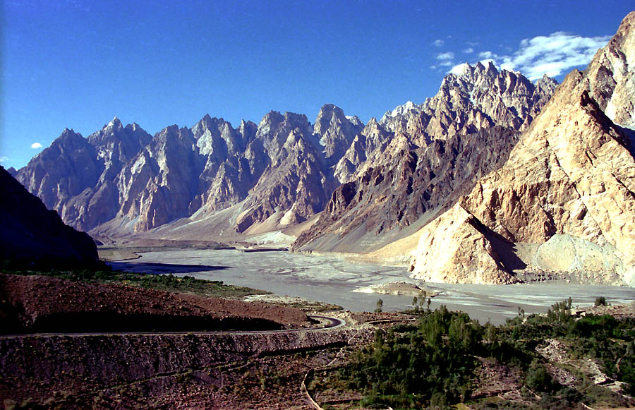 The Cathedral Ridge viewed from the Karakoram Highway near the village of Passu, Northeast Frontier, Pakistan